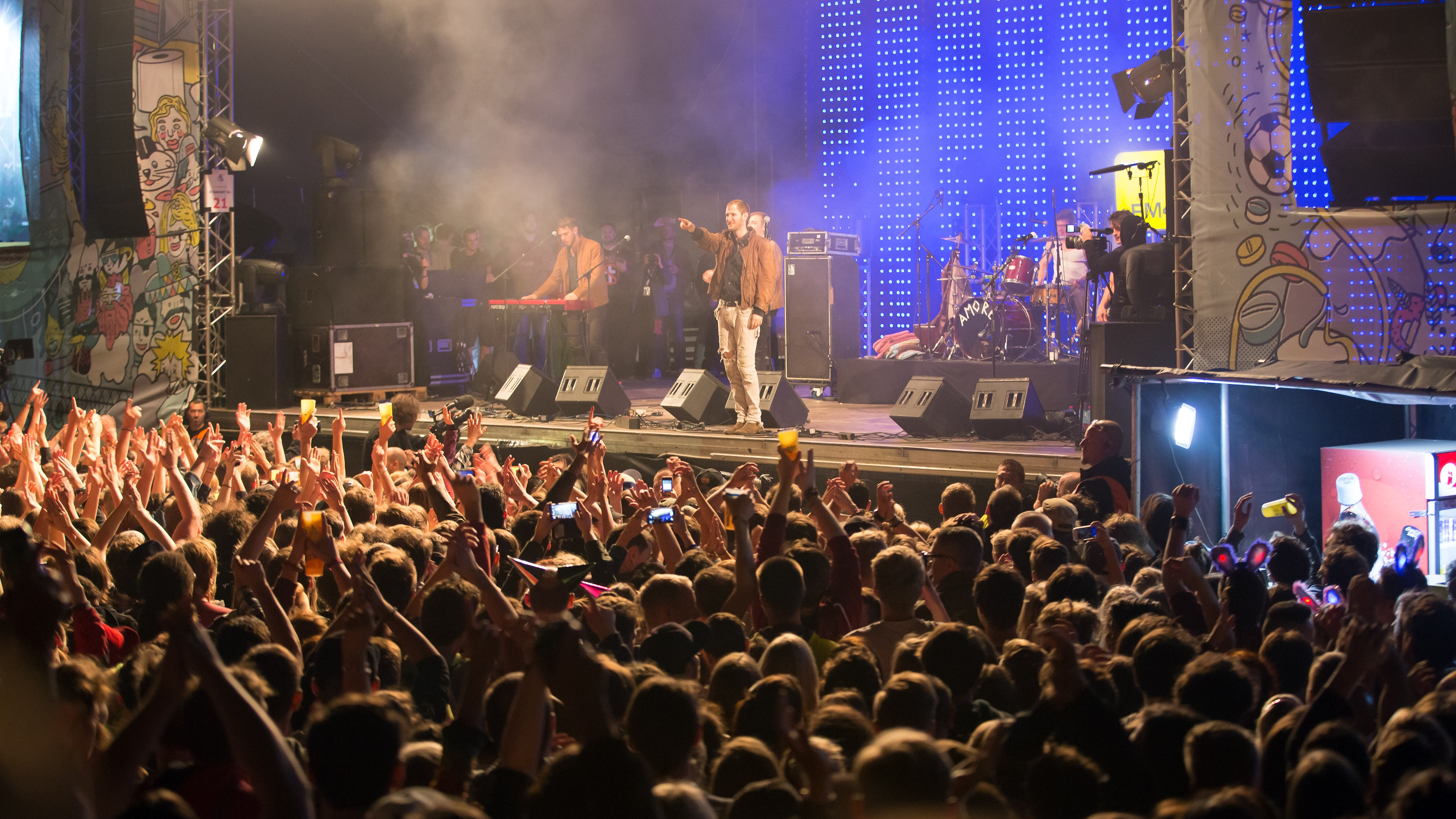 Wanda at Donauinselfest 2015 in Vienna, Austria